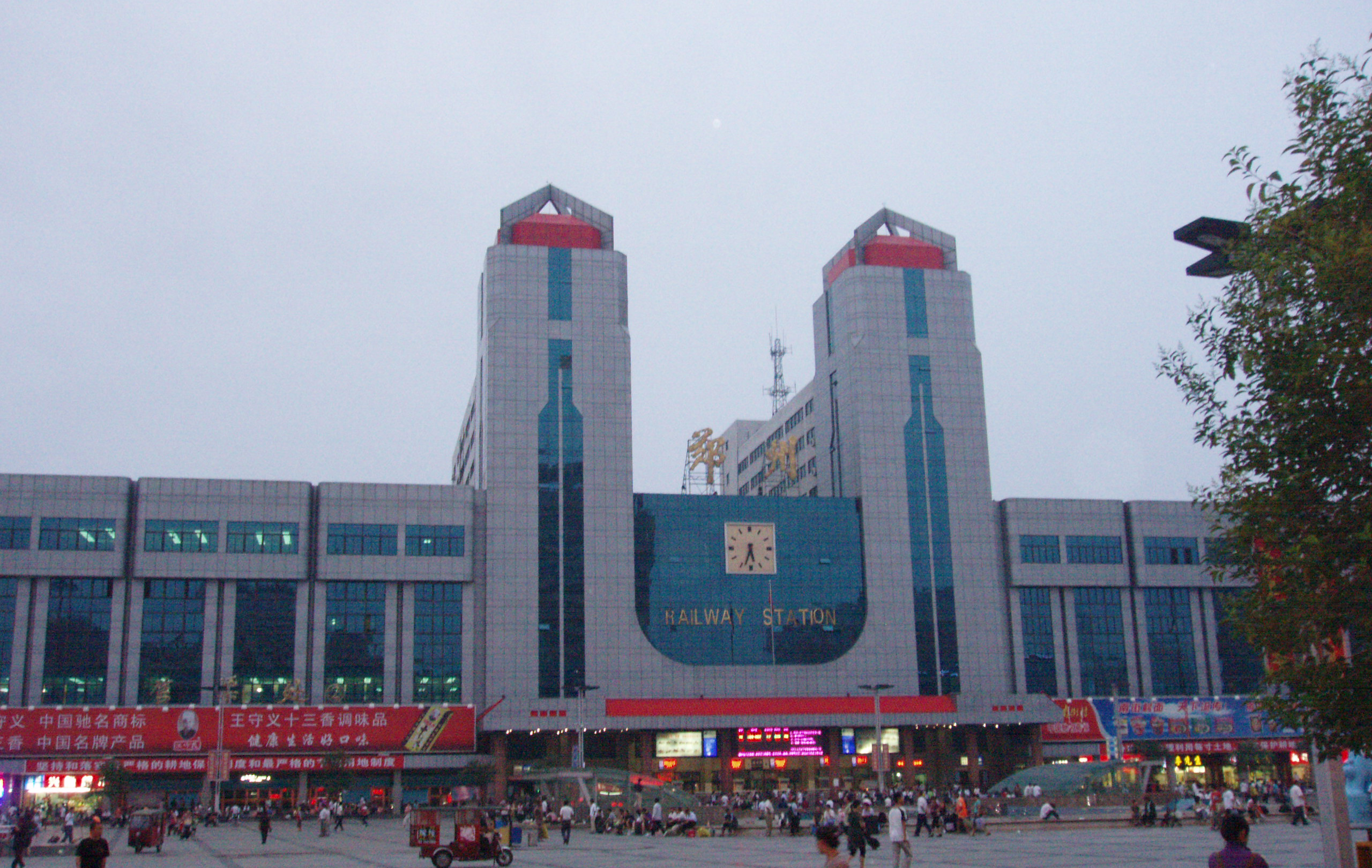 Zhengzhou railway station in Henan,China